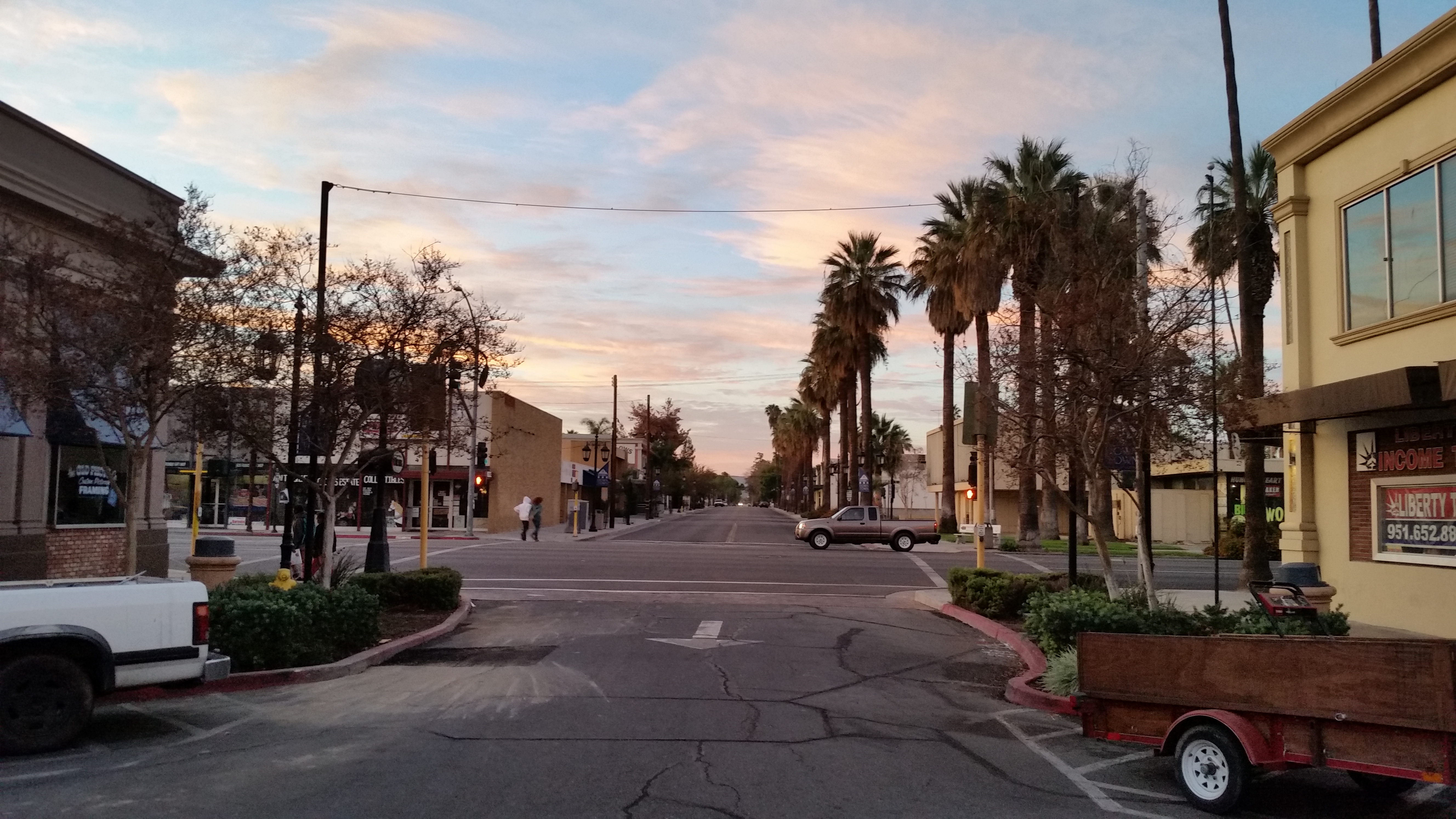 Sunrise over Downtown Hemet, looking south down Harvard St.